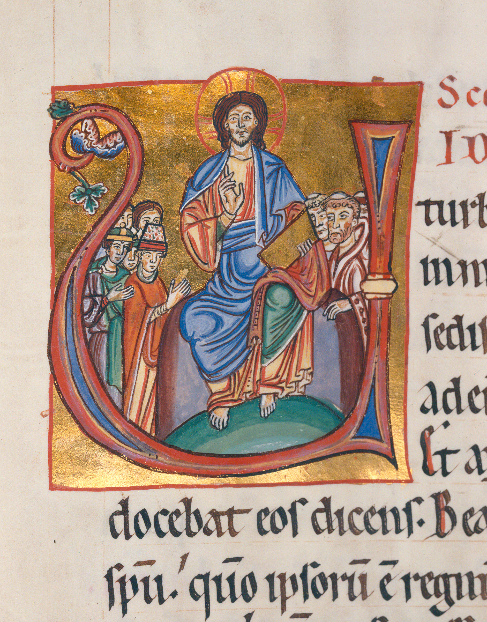 Evangelistar von Speyer, um 1220 Manuscript in the Badische Landesbibliothek, Karlsruhe, Germany Detail from Cod. Bruchsal 1, Bl. 68r